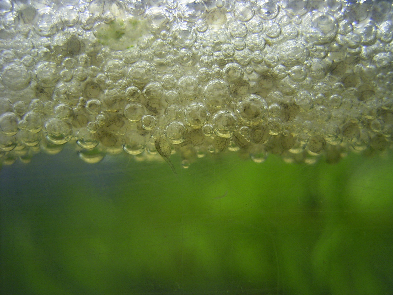 Author: Tenn Hian-kun Description: Paradise fish's spawn under the hatching process